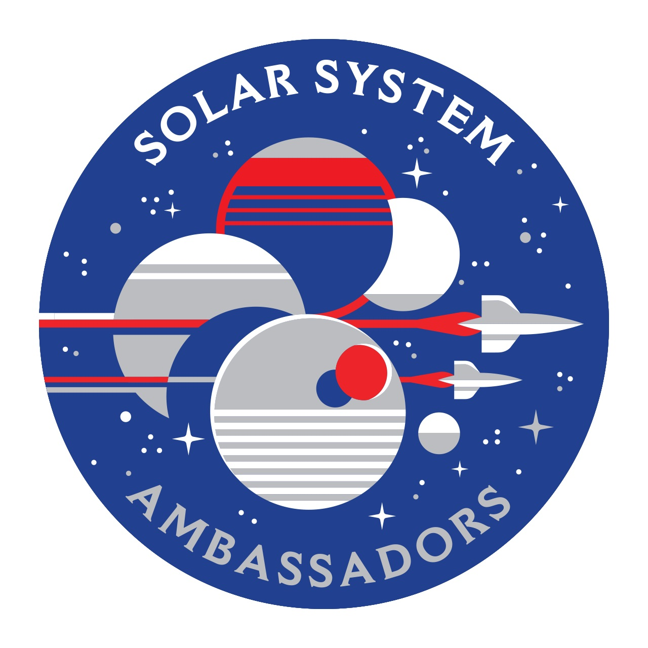 The color copy of the new logo utilized by the Solar System Ambassadors program.